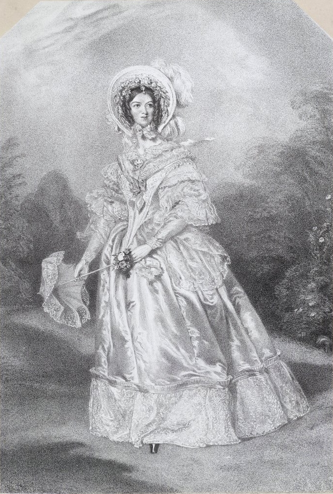 Unlettered proof of a 19th century lithograph believed to be of Ann Thwaytes (1789-1866). Lithograph by Richard James Lane after Alfred Edward Chalon, R.A. who exhibited his original oil painting at the Royal Academy in 1841. Ann Thwaytes was the benefactress who paid for the erection of the Clock Tower at Herne Bay, Kent, England.